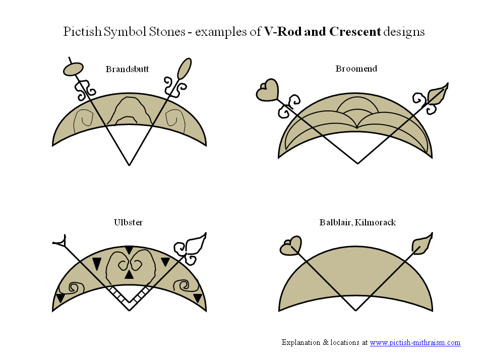 Around 90 examples of the so-called V Rod & Crescent design can be seen on Pictish Standing Stones (around 1200 to 1500 years old) in situ in NE Scotland or in (mainly) Scottish museums. It is the most numerous of these Pictish designs following a general pattern of two lines at broadly right angles coming to a point (like a "V") each line often with an arrow shape (as if directional). This "V" overlays a crescent shape with the "hollow" part lower (except in one instance). None is oriented the same as a crescent moon.